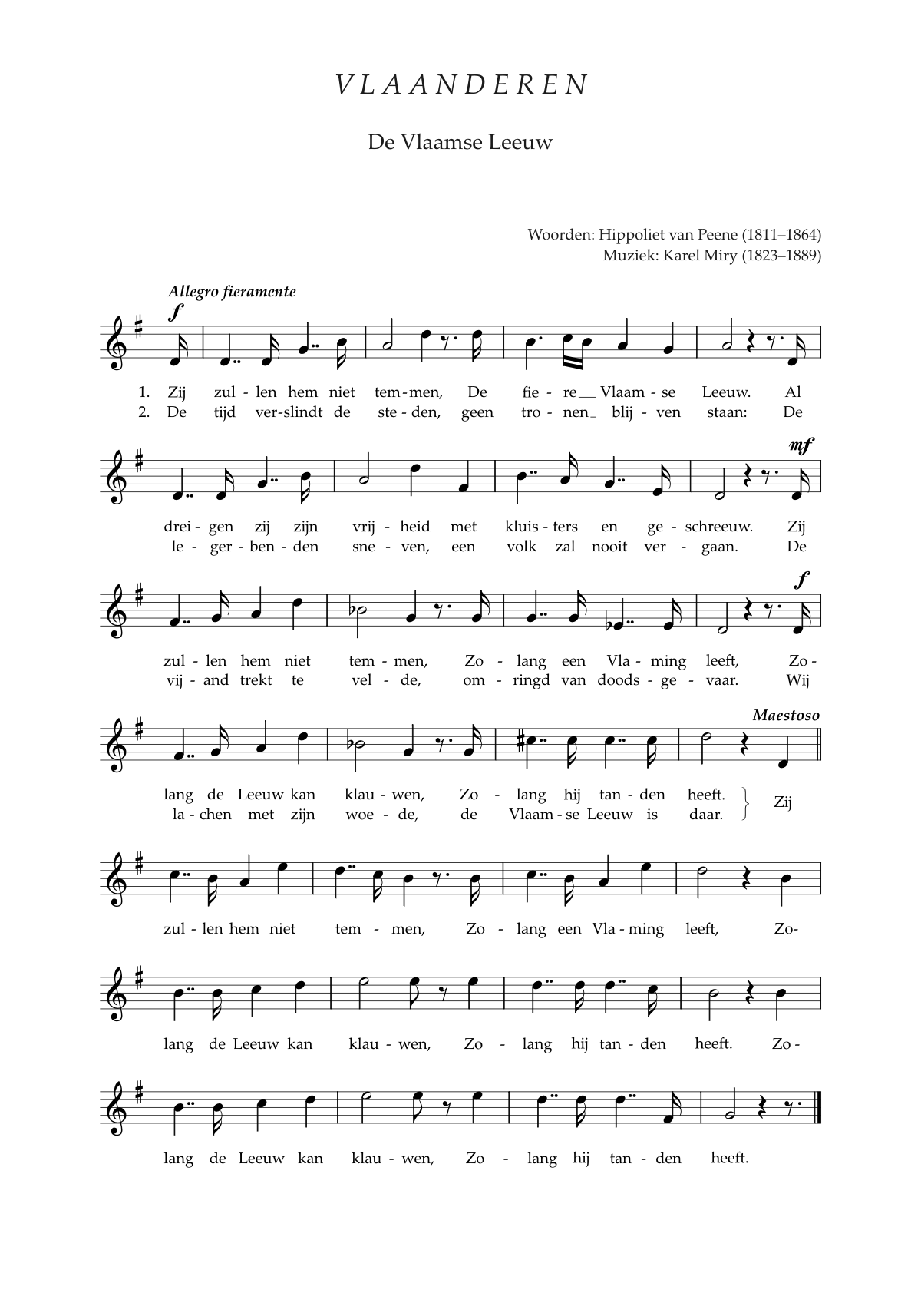 National anthem of Flanders